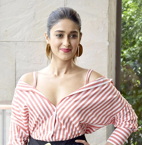 Ileana D'Cruz snapped on (25 July 2017) during the promotions of her film 'Mubarakan' in Delhi.